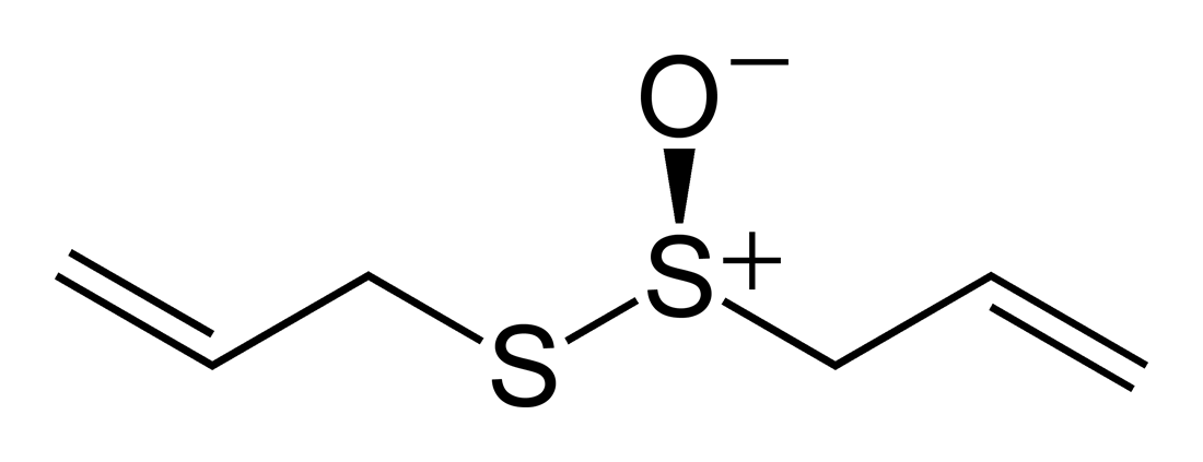 Skeletal formula of (R)-allicin